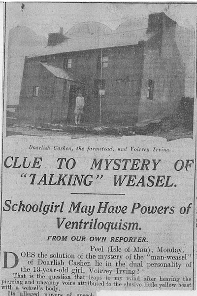 Newspaper article on Gef the talking mongoose claiming that trickery and ventriloquism from Voirrey Irving may have been the cause of the phenomena.